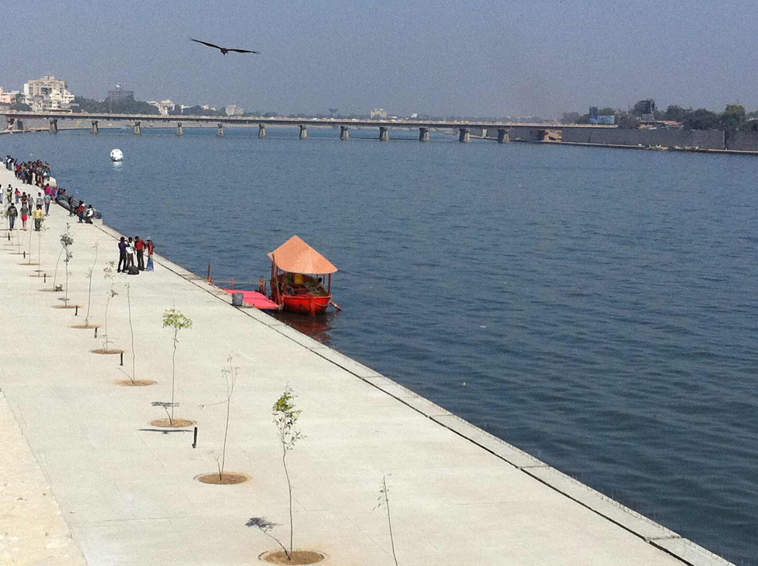 11 Jan 2011